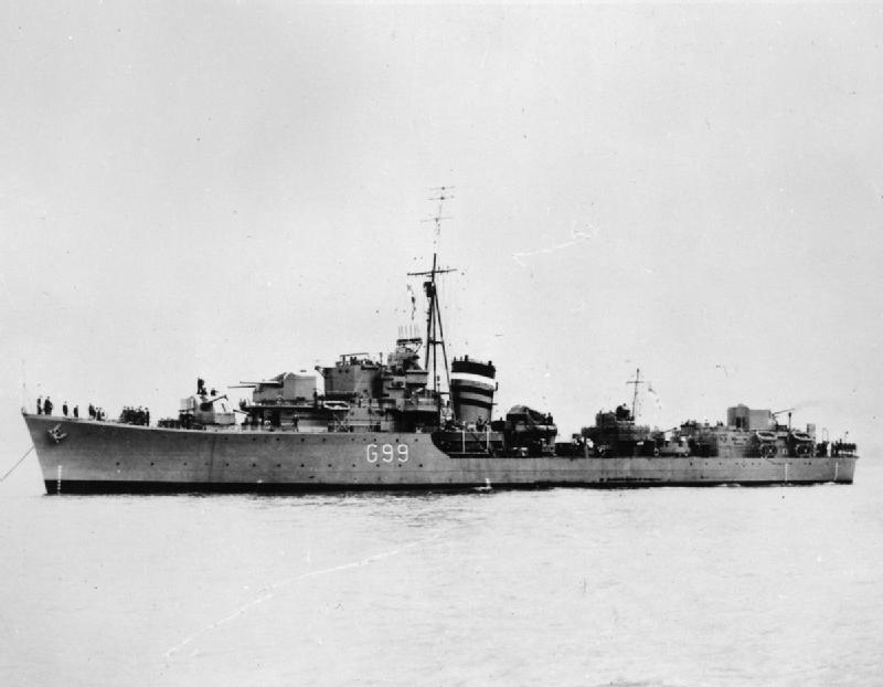 British destroyer HMS LAFOREY secured to a buoy.